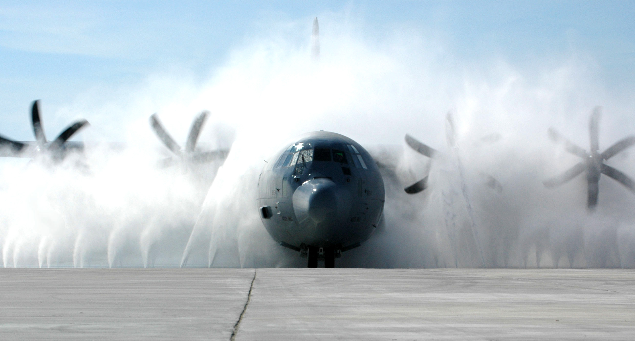 A C-130J Hercules is cleaned up in the new wash system (nicknamed the Bird Bath) at Keesler Air Force Base, Mississippi. Aircraft from the Air Force Reserve Command's 403rd Wing fly many hours over the Gulf of Mexico. Salt and moisture could lead to corrosion if aircraft are not kept clean.